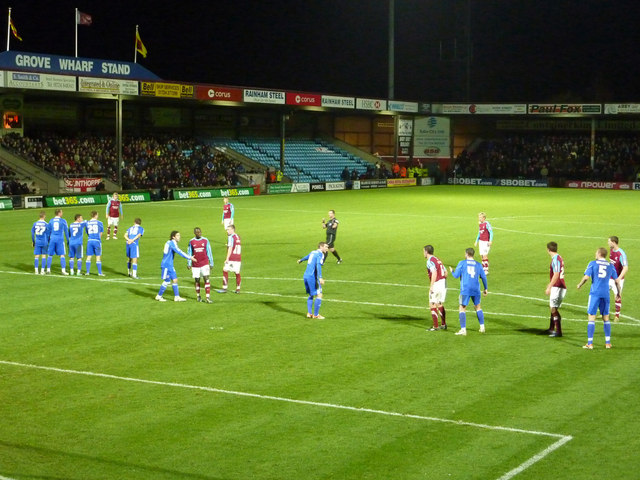 Free kickSecond half free kick for Scunthorpe United during their disappointing 2-0 home defeat by Midlesborough in the Championship